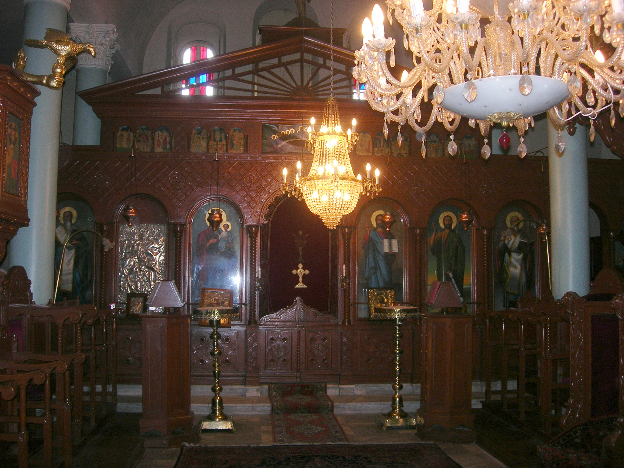 The interior of the church